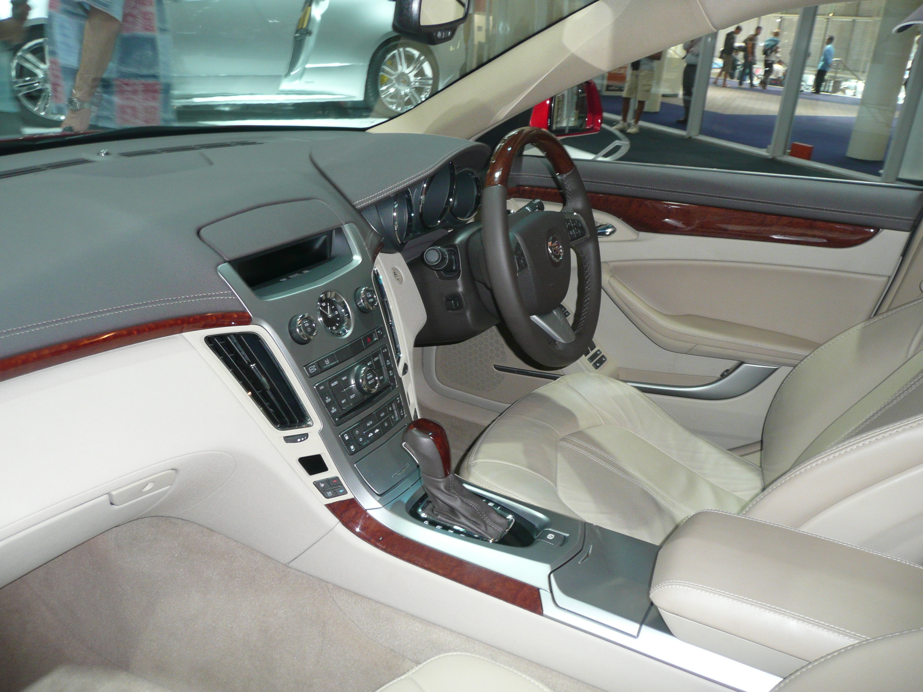 2008 Cadillac CTS sedan. Photographed at the 2008 Australian International Motor Show, Sydney, New South Wales, Australia.